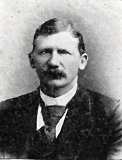 Henry C. Snodgrass, US Representative from Tennessee